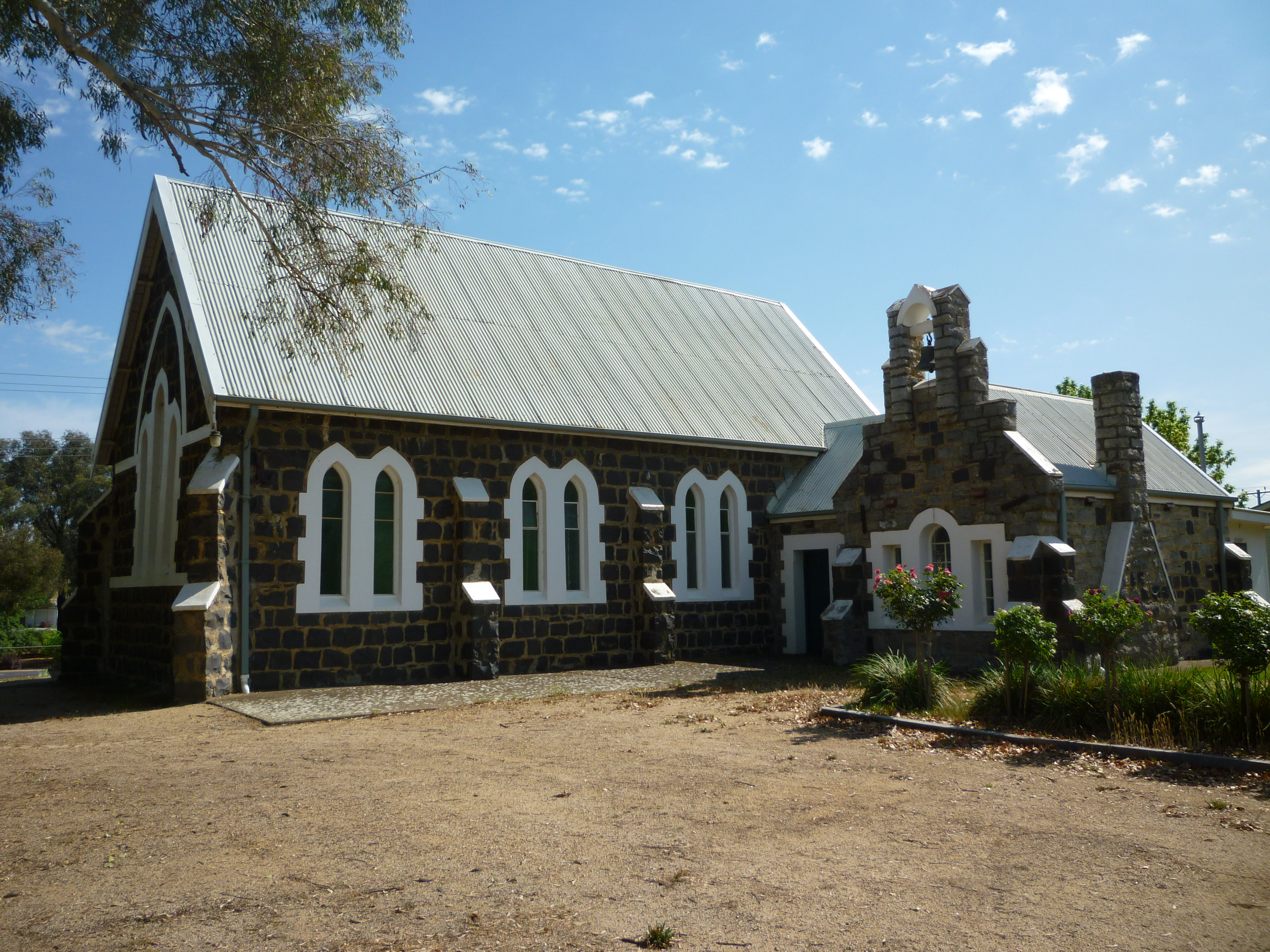 St Colmbanus Roman Catholic church in Cudal, New South Wales]